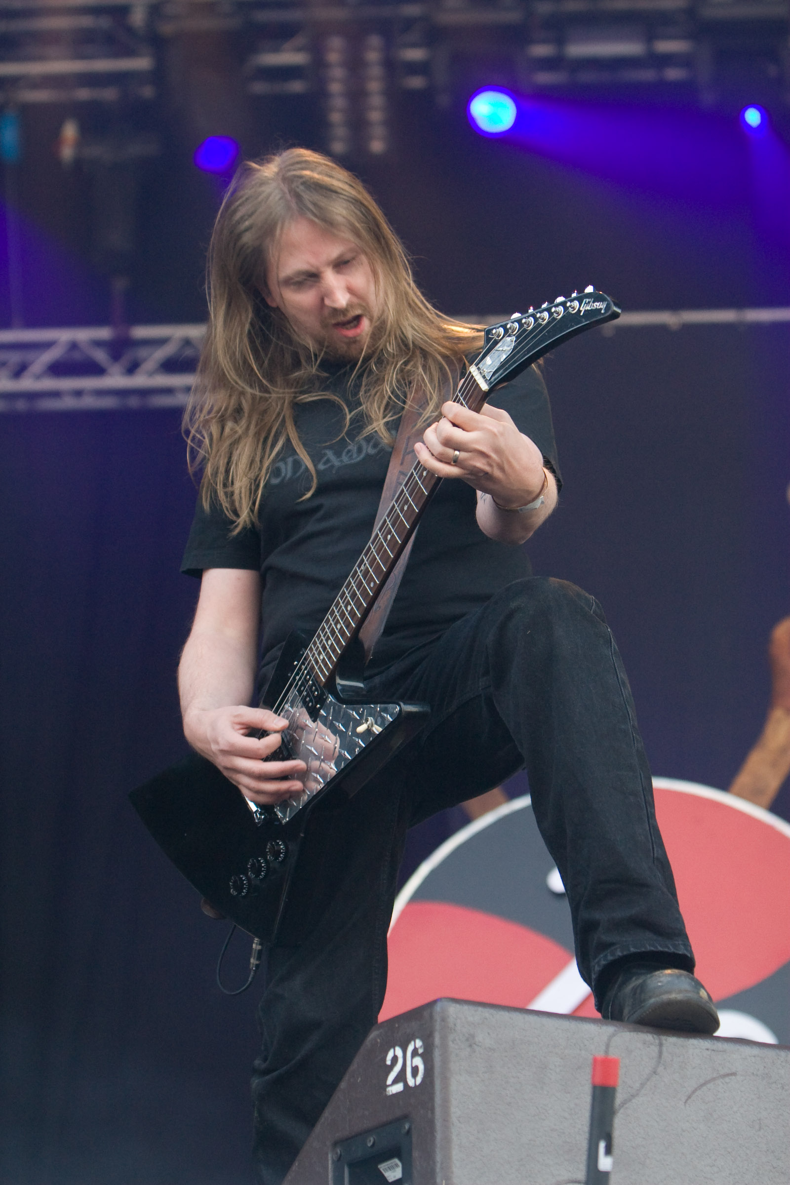 Johan Söderberg of Amon Amarth